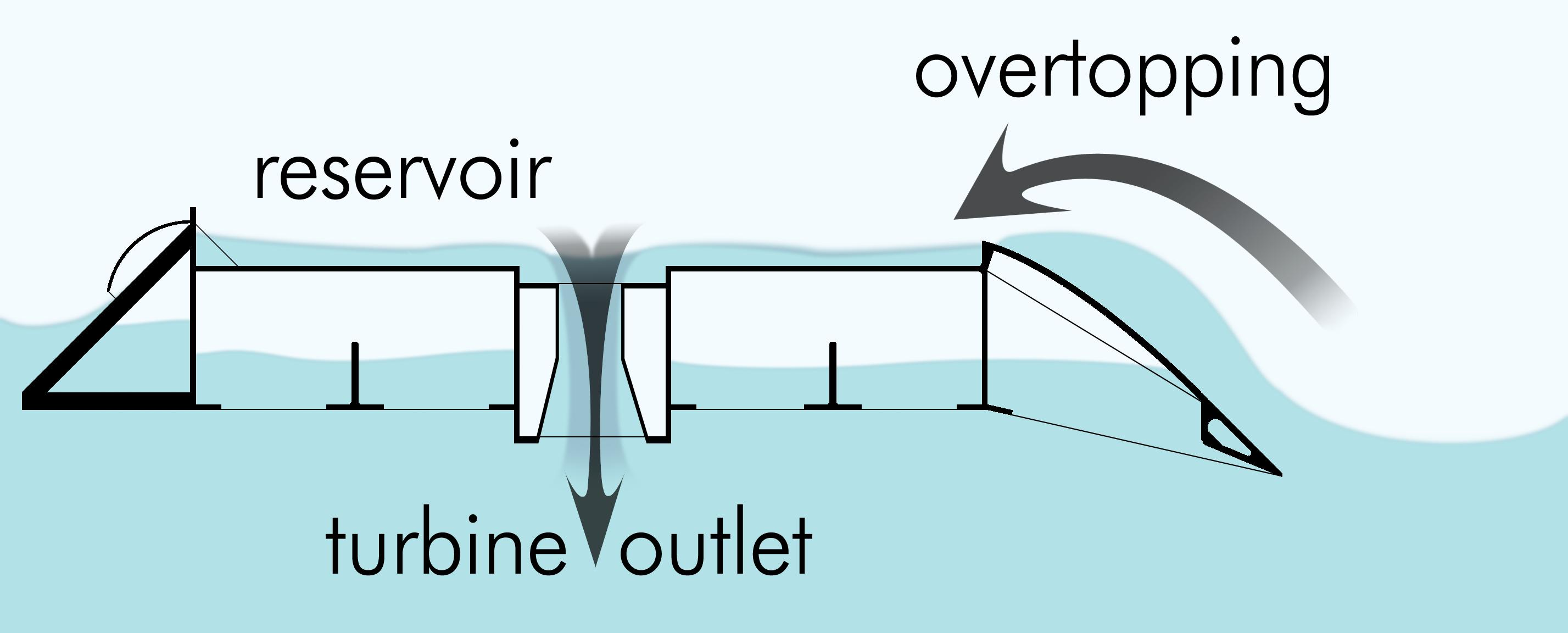 The principle of the Wave Dragon technology.